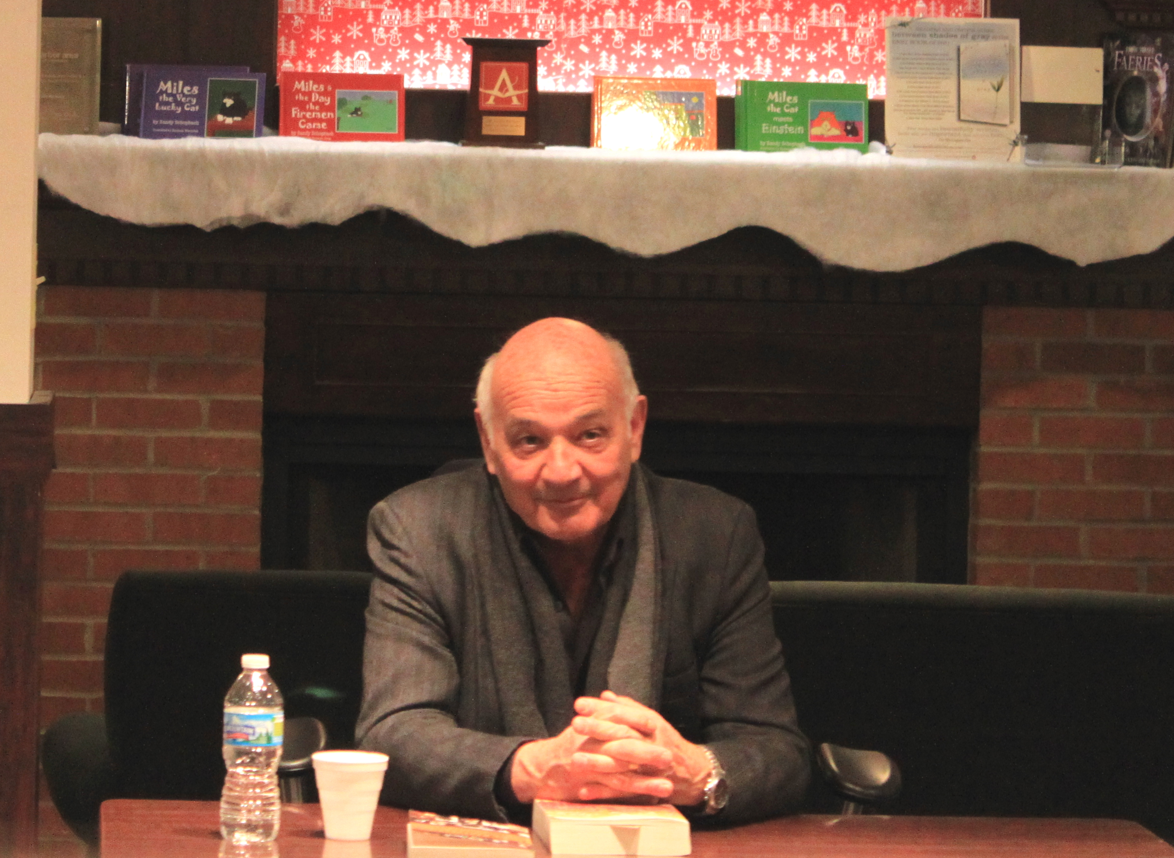 Author Nicholas Delbanco at a book signing event at Nicola's Books, 2513 Jackson Avenue, Ann Arbor, Michigan, February 15, 2012.